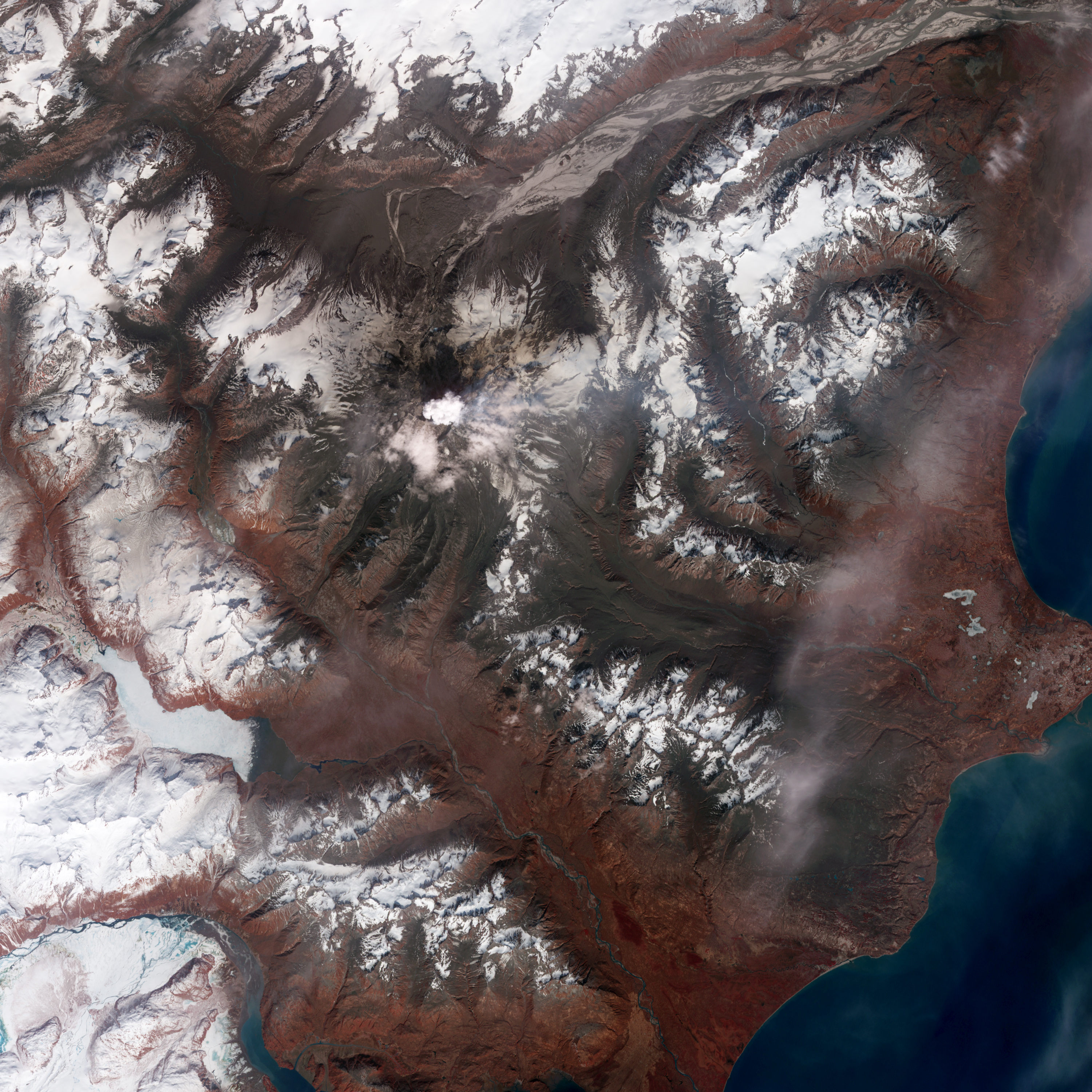 The Advanced Spaceborne Thermal Emission and Reflection Radiometer (ASTER) on NASA’s Terra satellite acquired this image of Mount Redoubt and its surroundings. The volcano exhibits little visible activity besides a plume of vapour. In this false-colour image made from a combination of visible and infra-red light, the bright white steam plume hovers over the volcano’s summit. Immediately southwest of this plume, clouds appear fairly thin and dull. North of the volcano, pristine snow rests on the land surface, but southeast of the volcano, ashfall from earlier eruptions has stained the icy surface. The vegetation in the coastal areas and in river valleys is red.